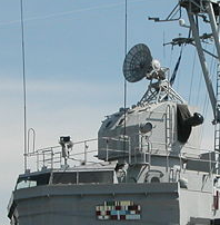 USS Cassin Young (DD-793) berthed at Boston Navy Yard in Boston, Mass. Picture taken by Matteo 11:16, 2005 Jan 29 (UTC) in August 2003